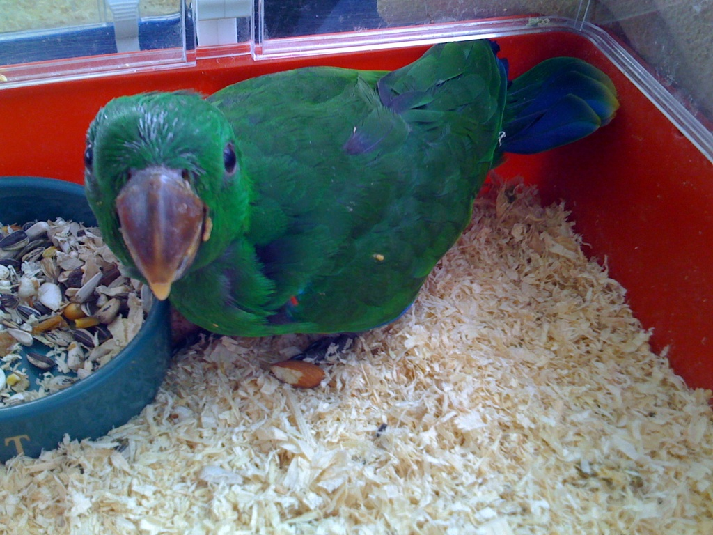 A male Eclectus Parrot chick at the age of seven weeks. It is being hand rearing for the pet trade.